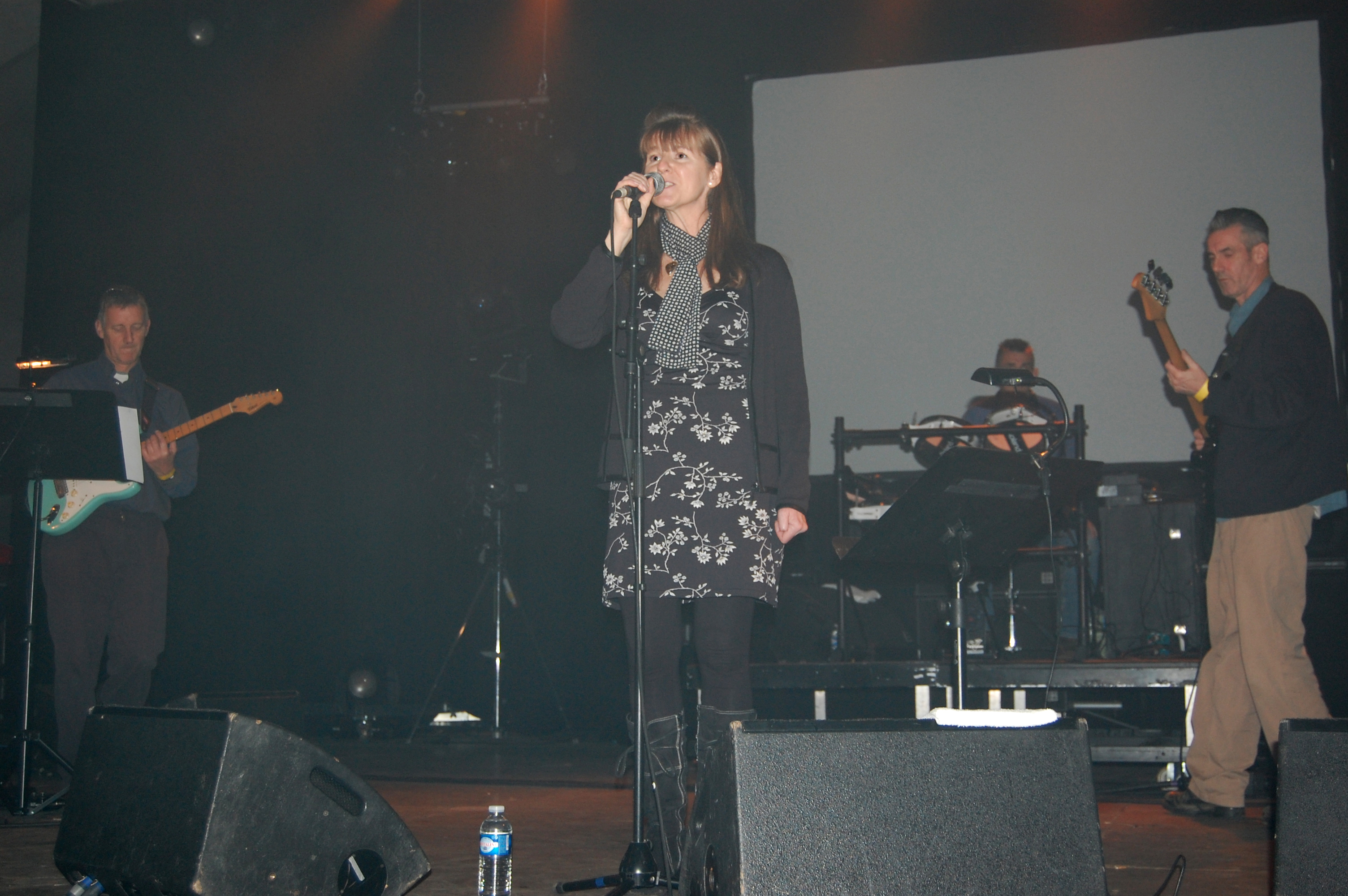 YMG November1, 2008